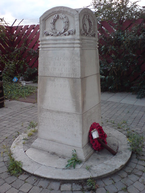 Memorial to Victims of London's Biggest Explosion